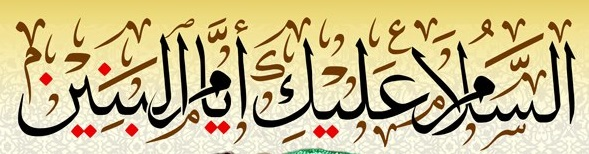 "السلام عليك يا أم البنين" - "Peace be upon you Umm ul-Banin.